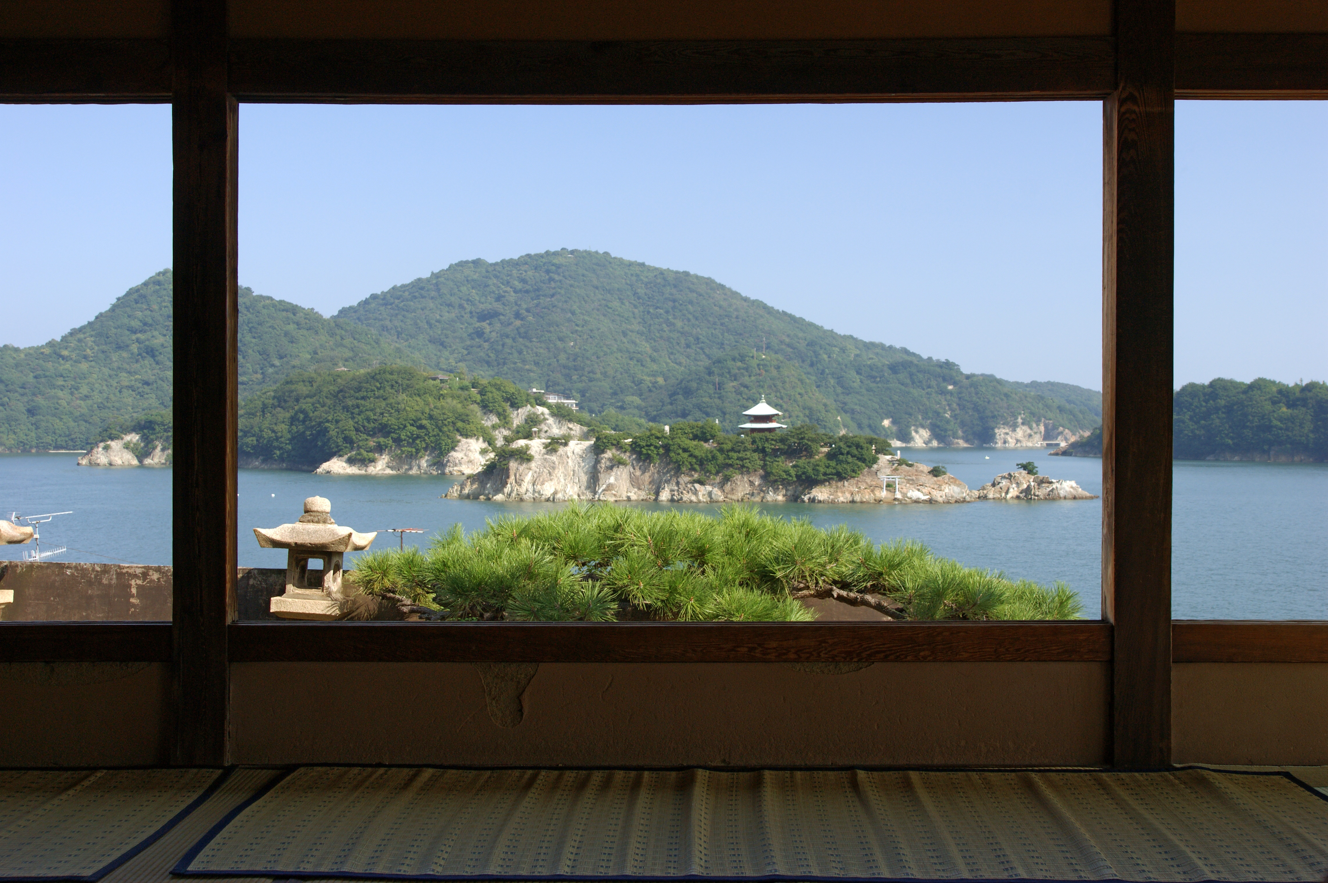 Fukuzenji, Fukuyama, Hiroshima Prefecture, Japan